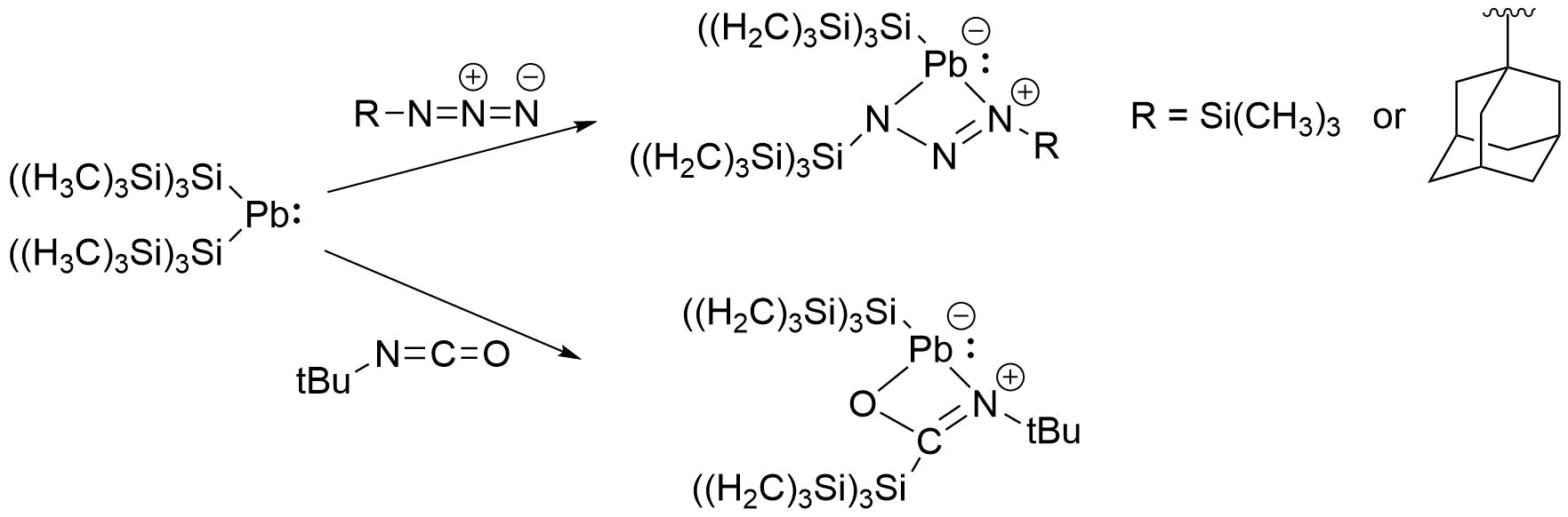 Insertion of an alkylazide and an isocyanate into ((Si(CH3)3)3Si)2Pb